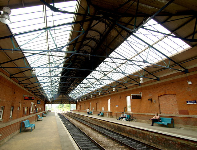 Beverley Railway Station, Beverley, East Riding of Yorkshire, England.